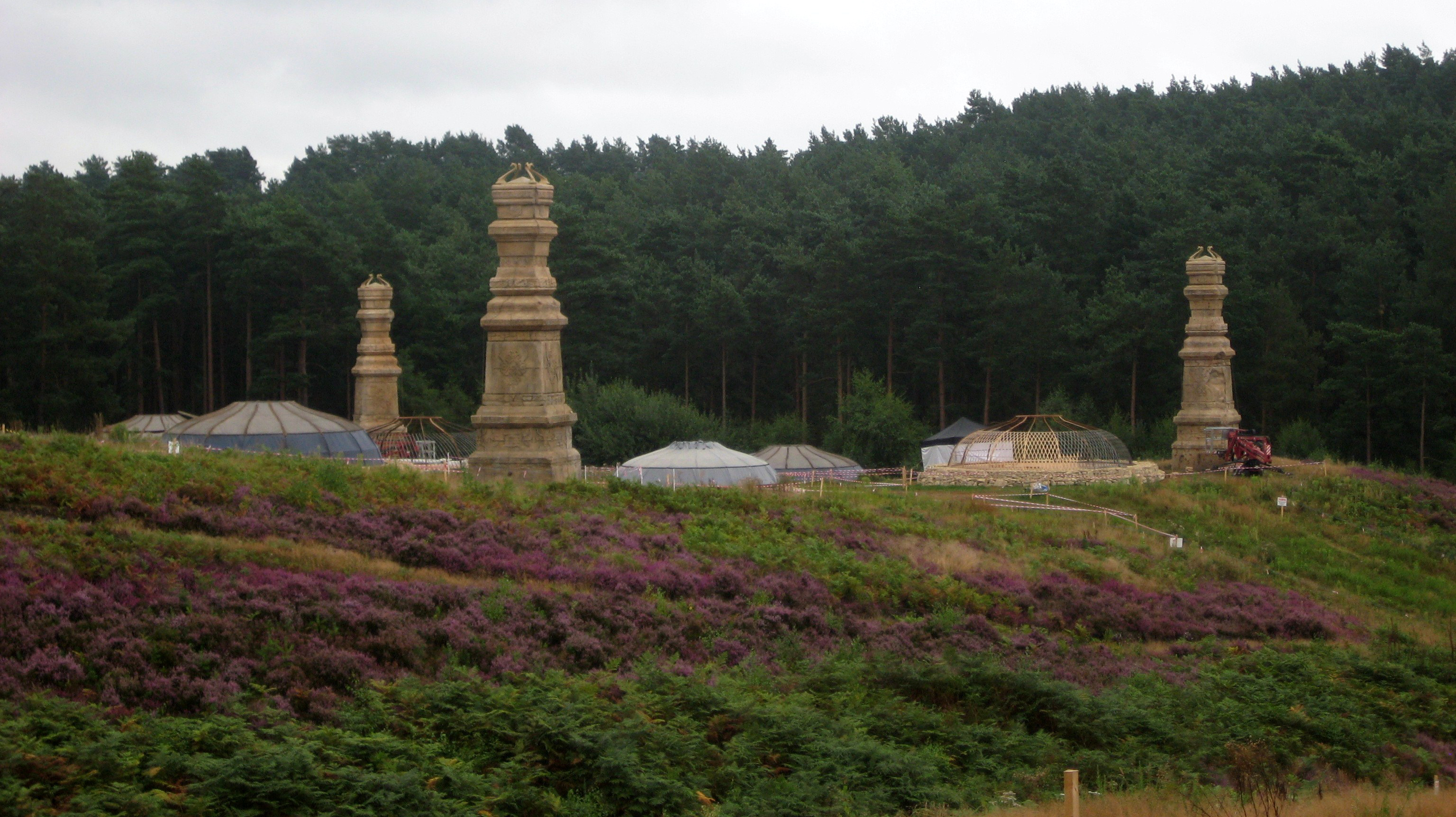 Film set for "Thursday Mourning" (working title for Thor: The Dark World) in the Bourne Wood, Farnham, Surrey, showing a village of yurts and stone towers in a fictional realm. The location will be used for a battle between two kingdoms, with Thor arriving to save the day.